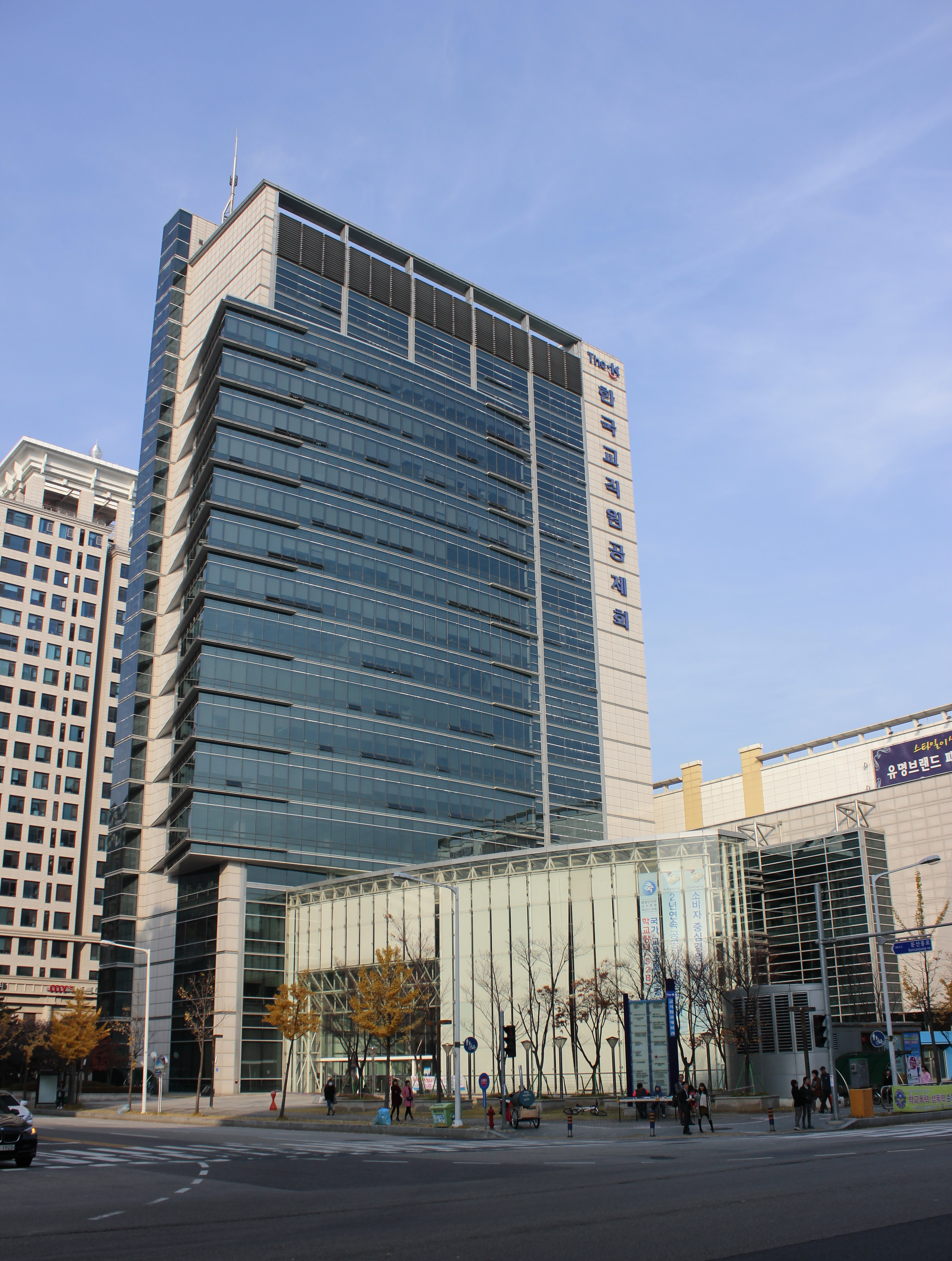 Tanbang-dong, Daejeon